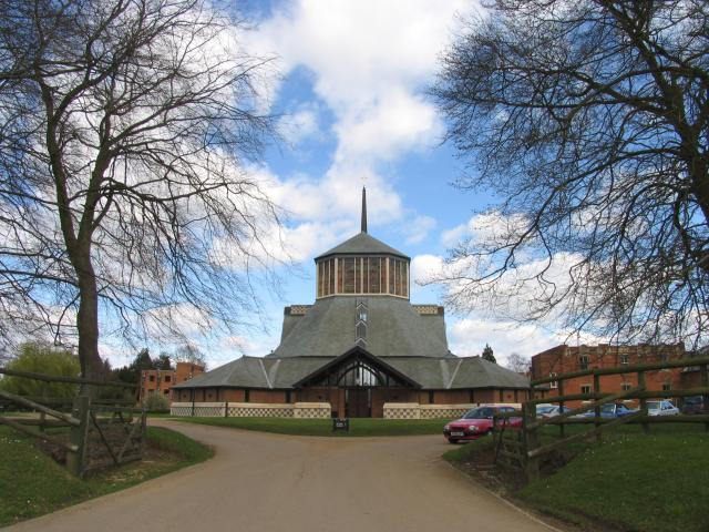 Douai Abbey, a Benedictine Abbey at Woolhampton, near Reading, Berkshire